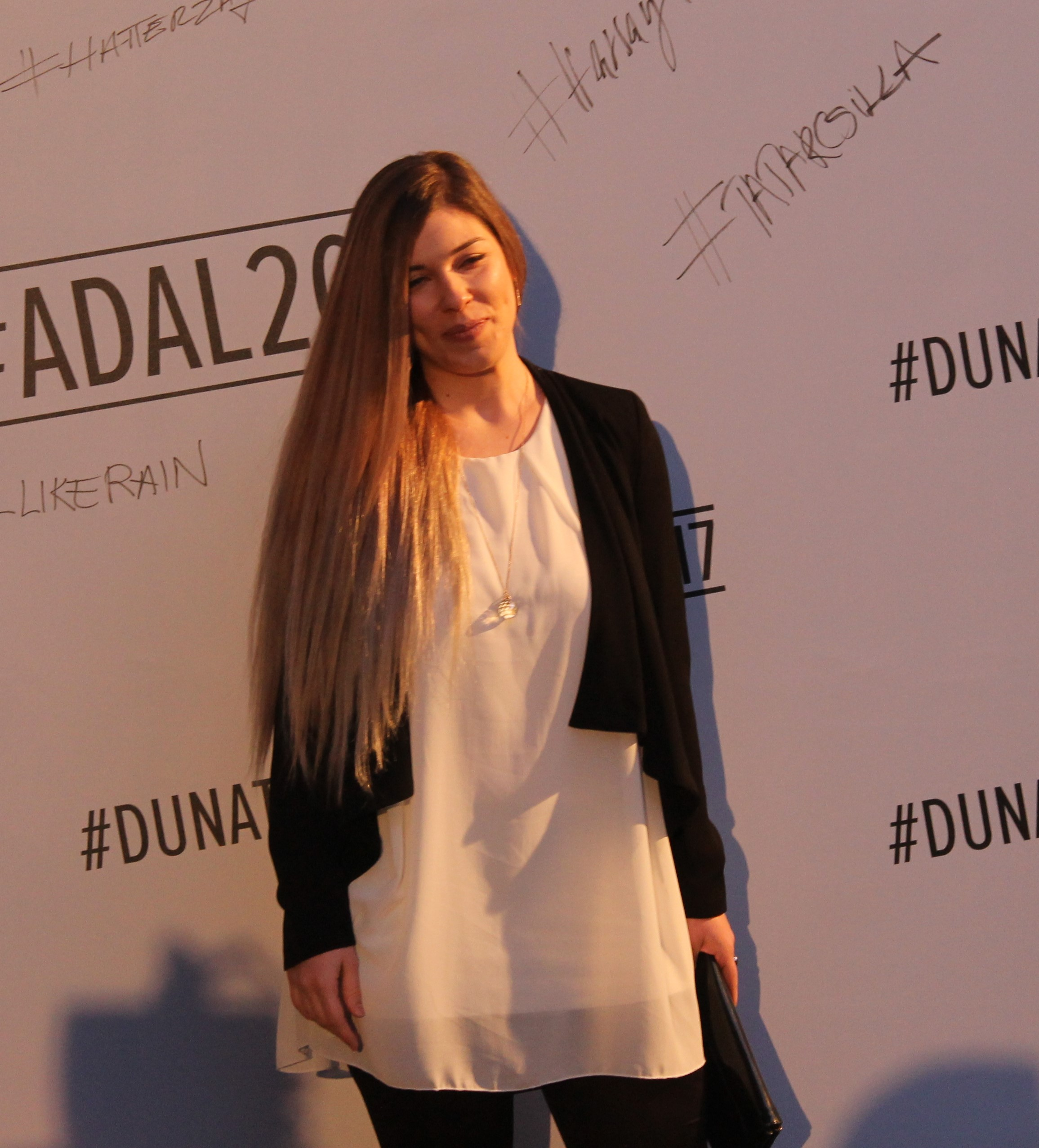 A Dal 2017 participant: Georgina Kanizsa